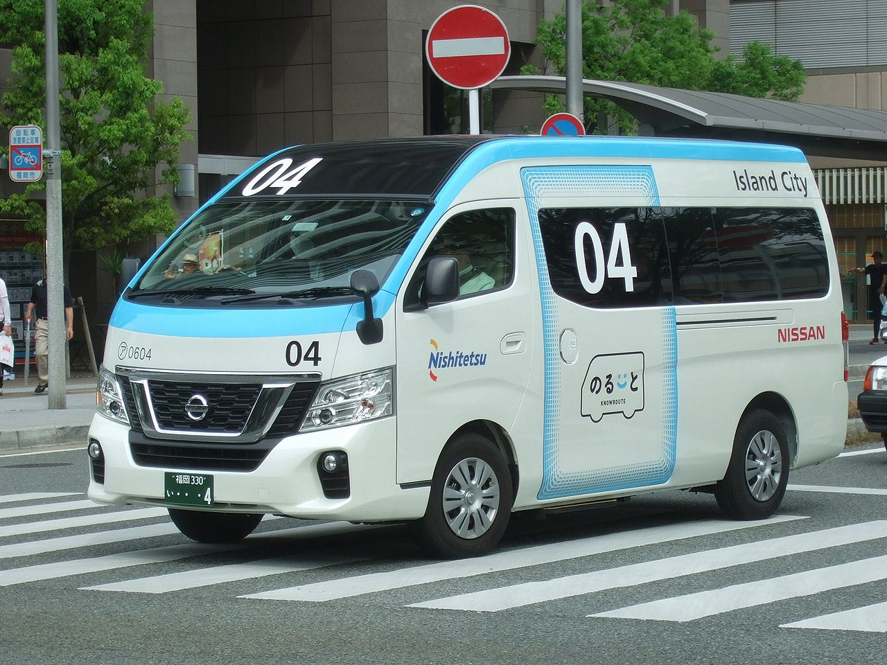 On demand bus service "KNOWROUTE" in Island City, Higashi Ward, Fukuoka, Japan. Company:Nishi-Nippon Railroad Use:transit bus (on demand bus) Car license:FOF330 I 4 Code:0604 Type:Nissan Caravan Location:Chihaya Station, Higashi Ward, Fukuoka City, Fukuoka, Japan.